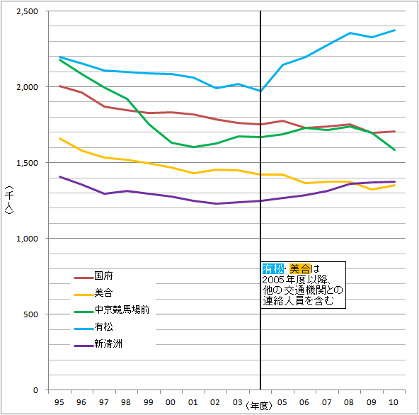 Vehicle ridership of Kō, Miai, Chūkyōkeibajō-mae, Arimatsu and Shin Kiyosu Station.